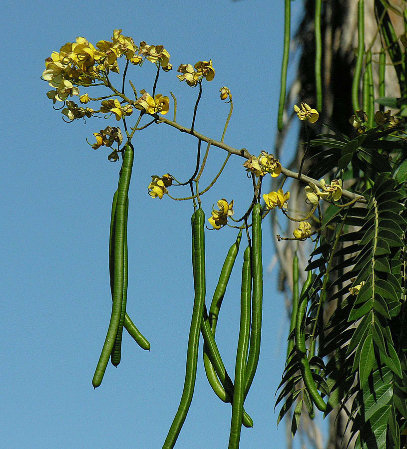 Near Songea, Tanzania. Naturalized from the american tropics.